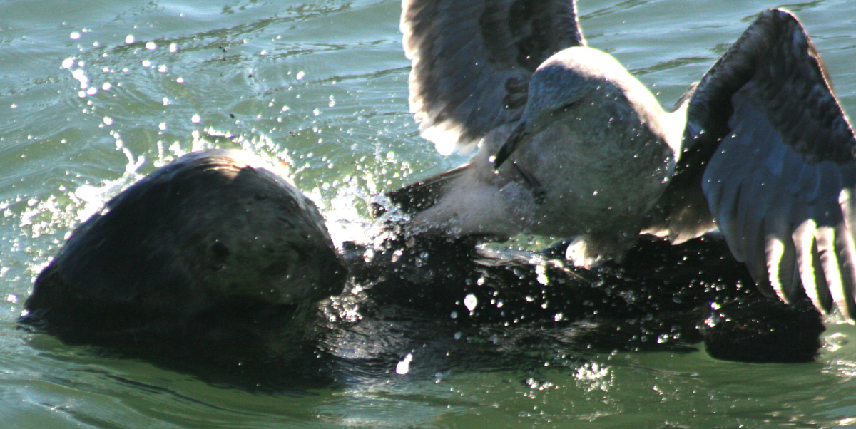 A gull is attacking a Sea otter, probably trying to steal its food